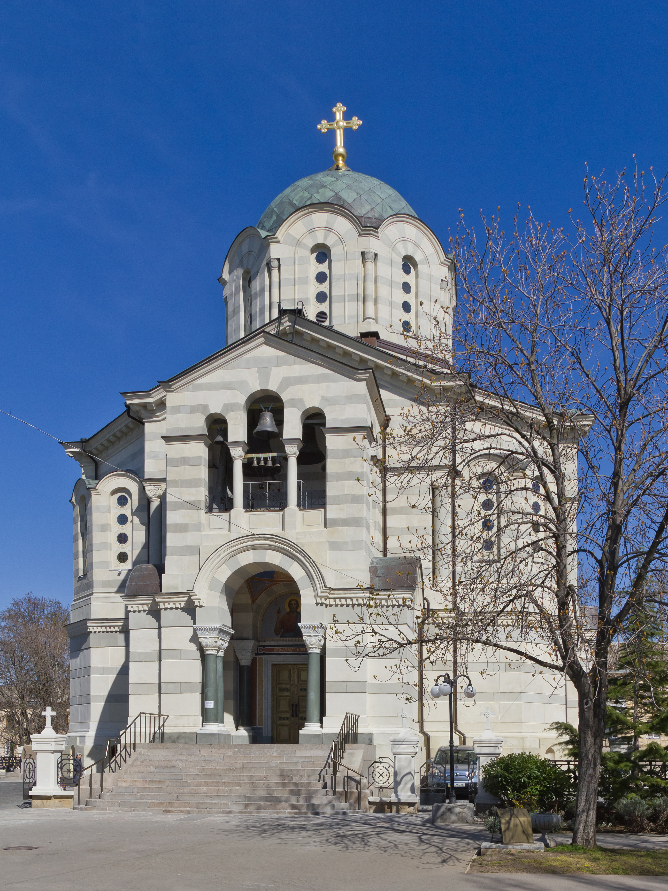 St. Vladimir Cathedral in the Federal City of Sevastopol. Crimean peninsula.